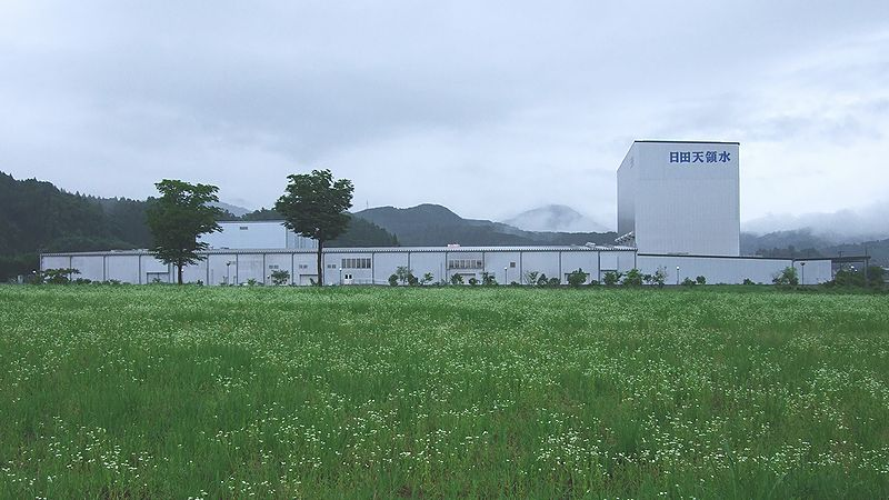 Hita Tenryosui factory, Hita City, Oita, Japan